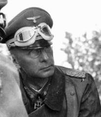 Rußland-Nord. Generalleutnant Georg-Hans Reinhardt. Close crop image